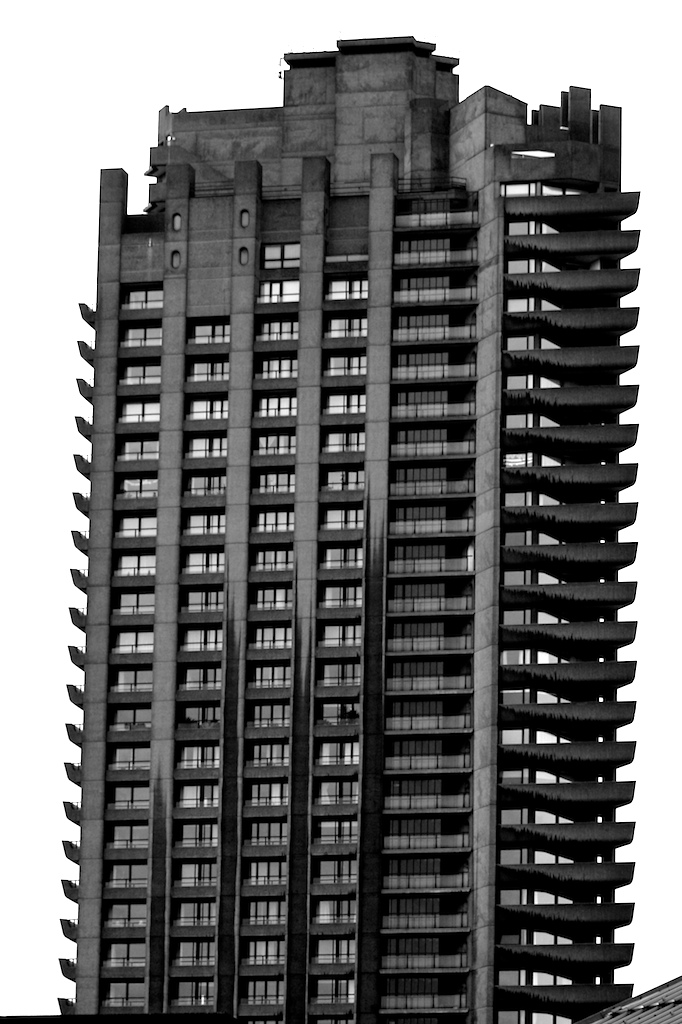 Shakespeare Tower, one of the three residential towers.